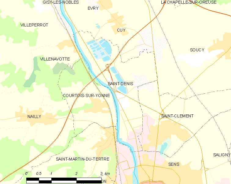 Map of French municipality Saint-Denis